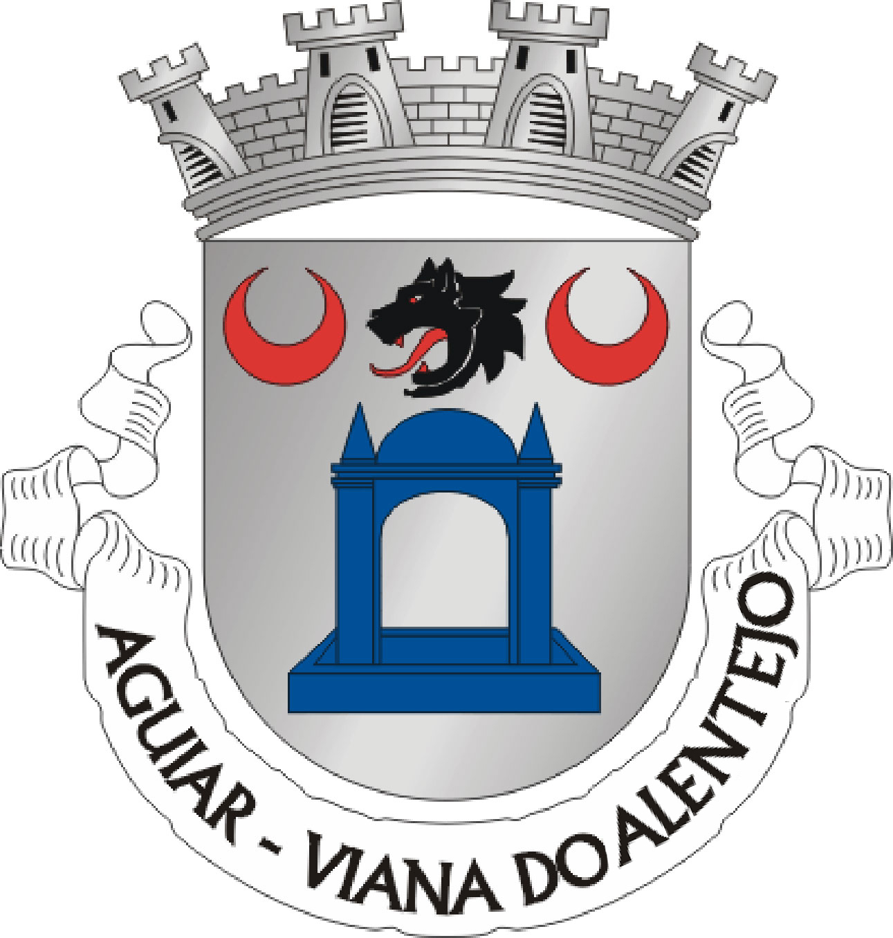 Coat of arms from Aguiar, Viana do Alentejo, Évora, Portugal